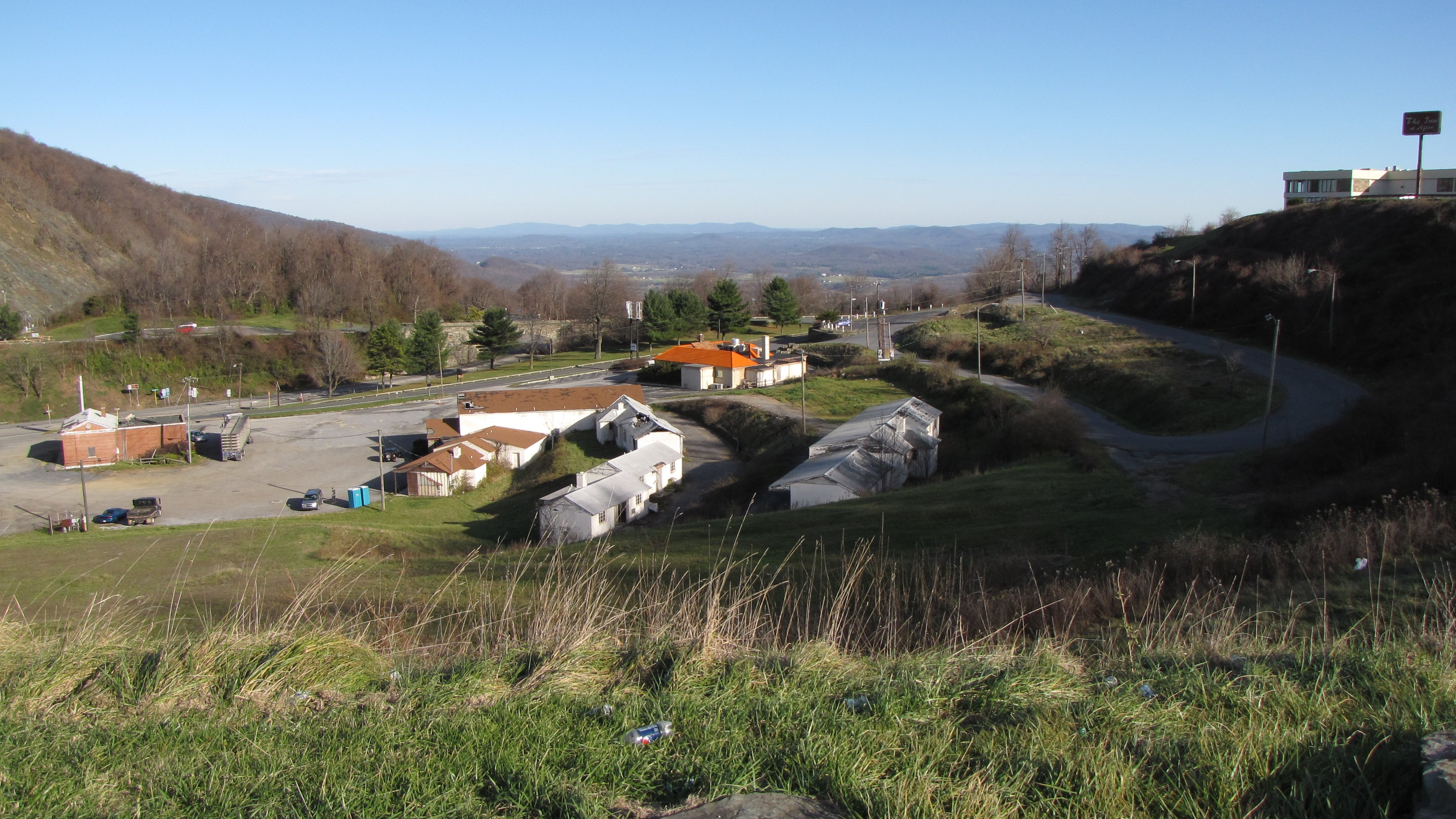 Rockfish Gap (geological phenomen: Wind gap), showing the nearby cluster of businesses.